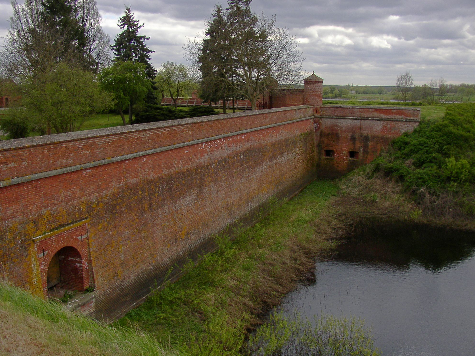 Fortress in Dömitz in Mecklenburg-Western Pomerania, Germany